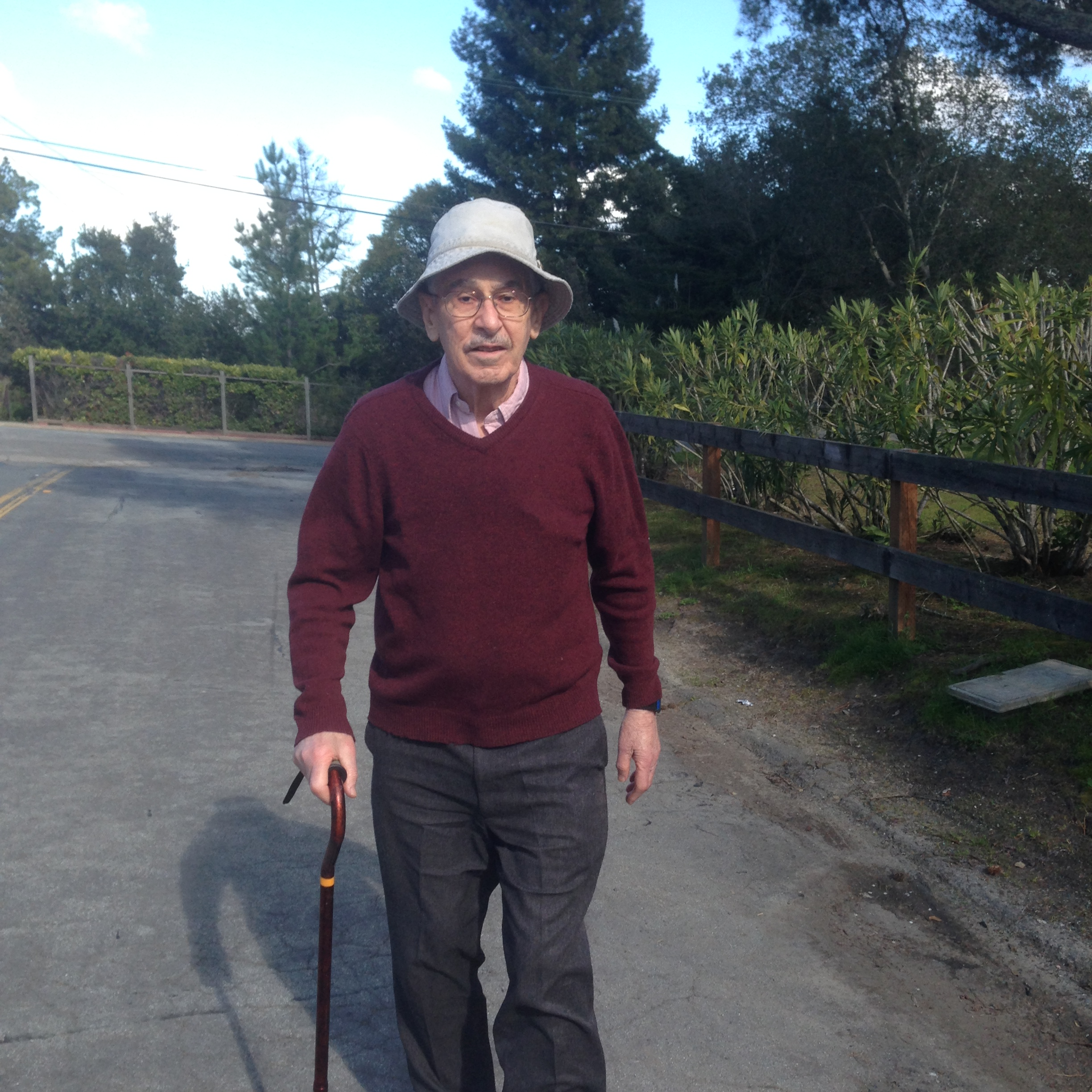 Ian Read Gibbons, walking near his home in Orinda, CA.